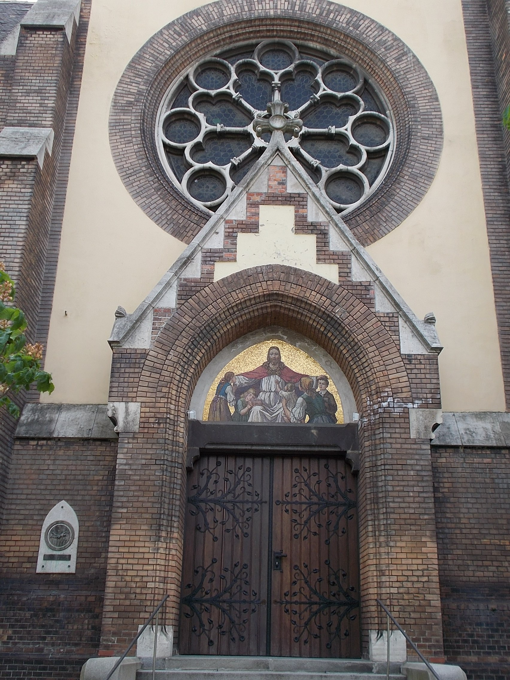 Fasori Lutheran Church. Gate. Listed monument ID 8011 - Budapest District VII., Hungary.